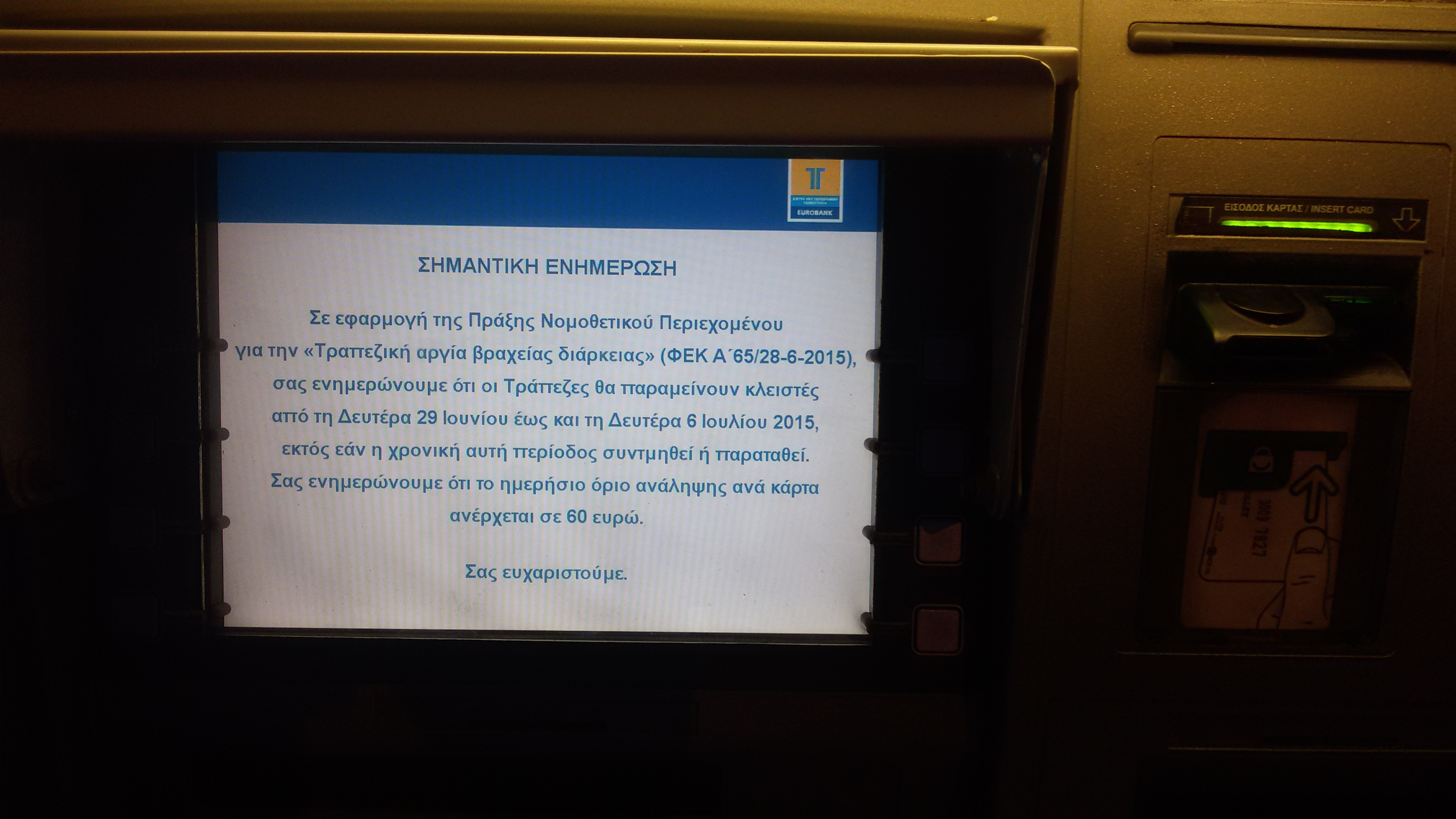 Message appearing on ATMs following the announcement of Greek bailout referendum. The message informs about the closure of banks from 29 June to 6 July and the 60 euro withdrawal per day per card.